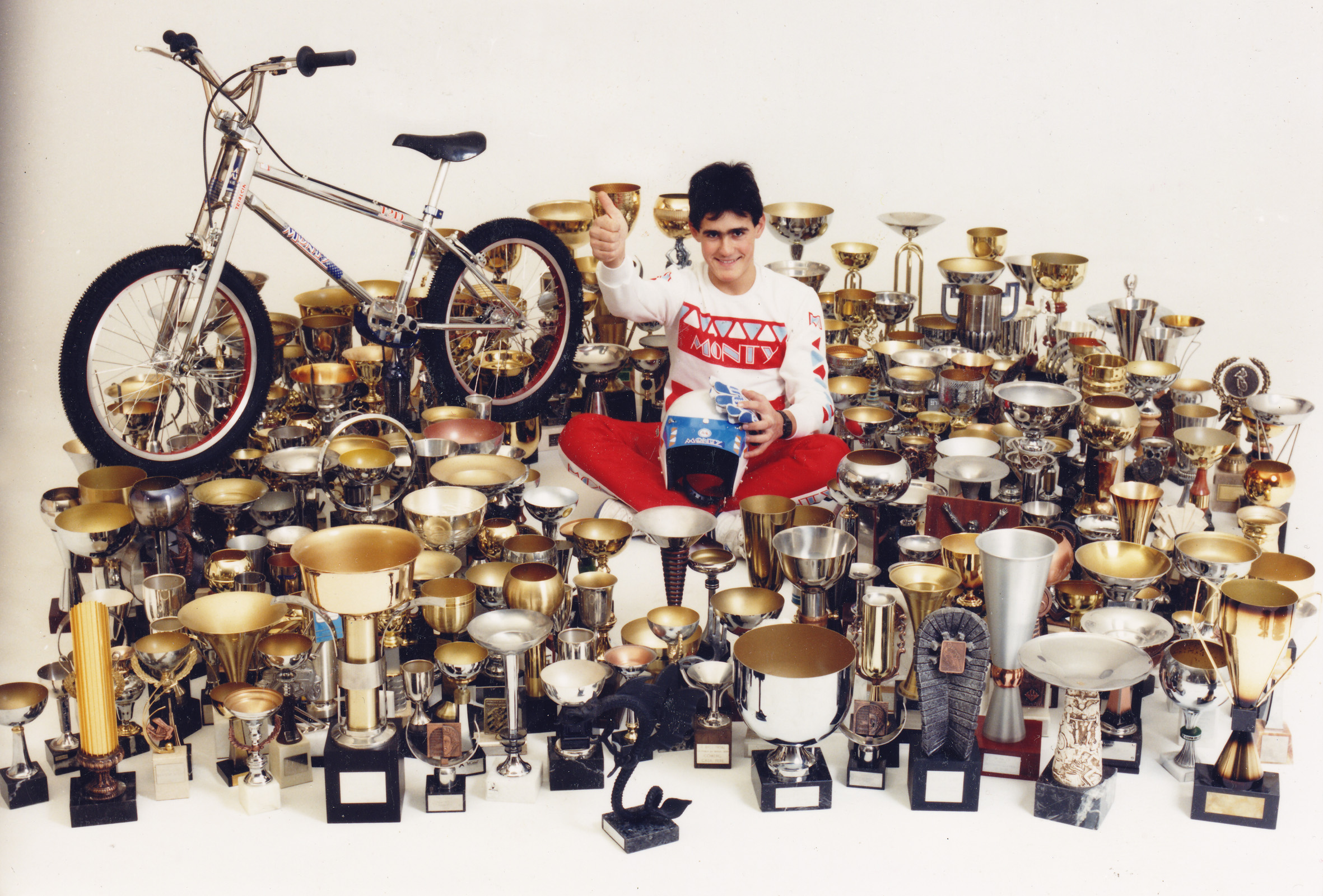 Awards 16 years old